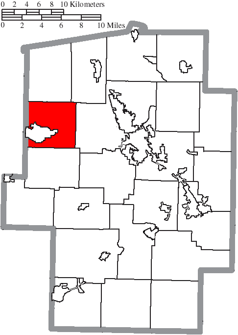 Map of the municipal and township boundaries of Tuscarawas County, Ohio, United States, as of the 2000 census, with the location of Sugar Creek Township highlighted. Township borders are shown only in unincorporated areas in order to differentiate incorporated and unincorporated areas more clearly.